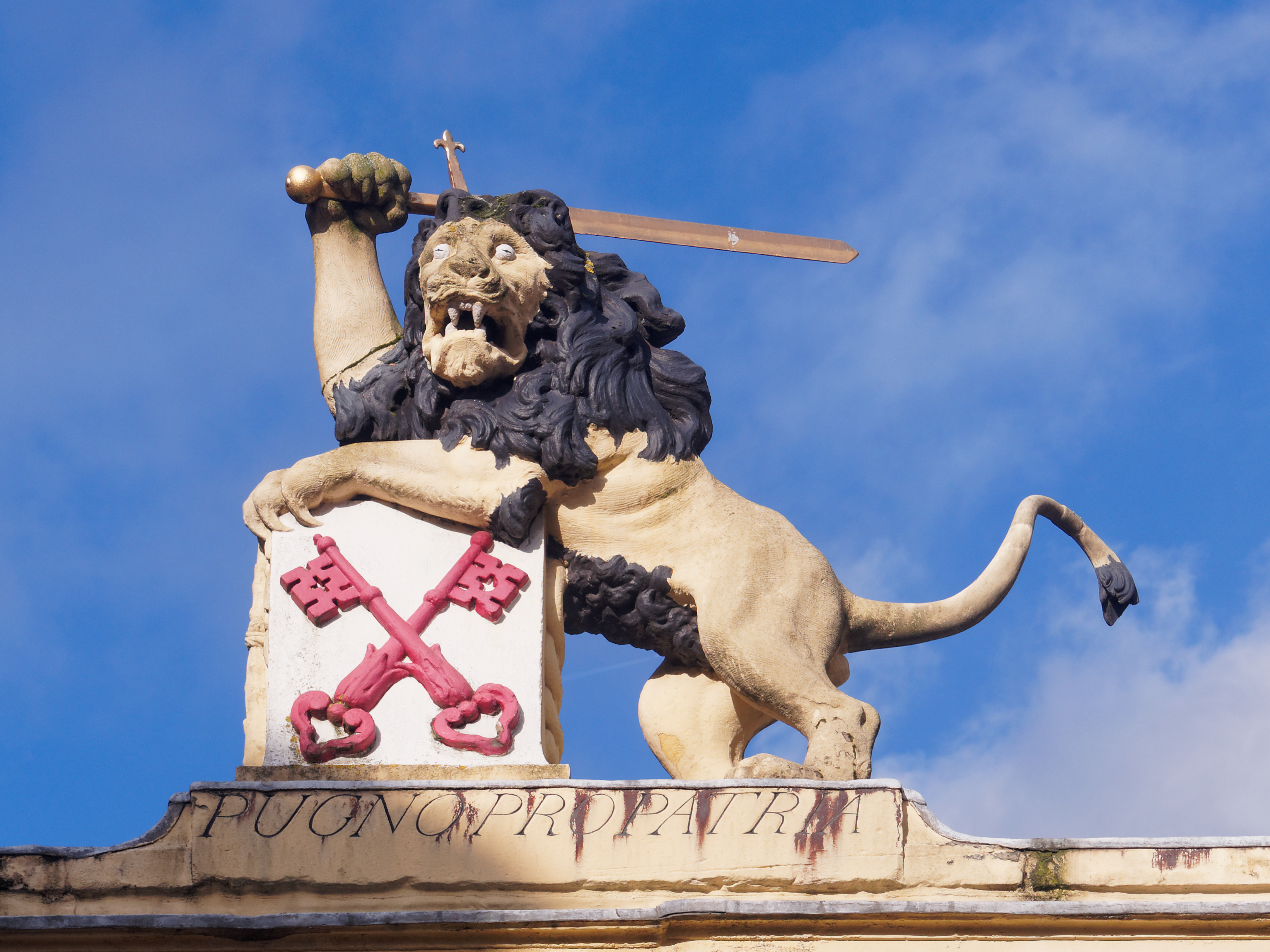 The lion at the entrance of Leiden fort.